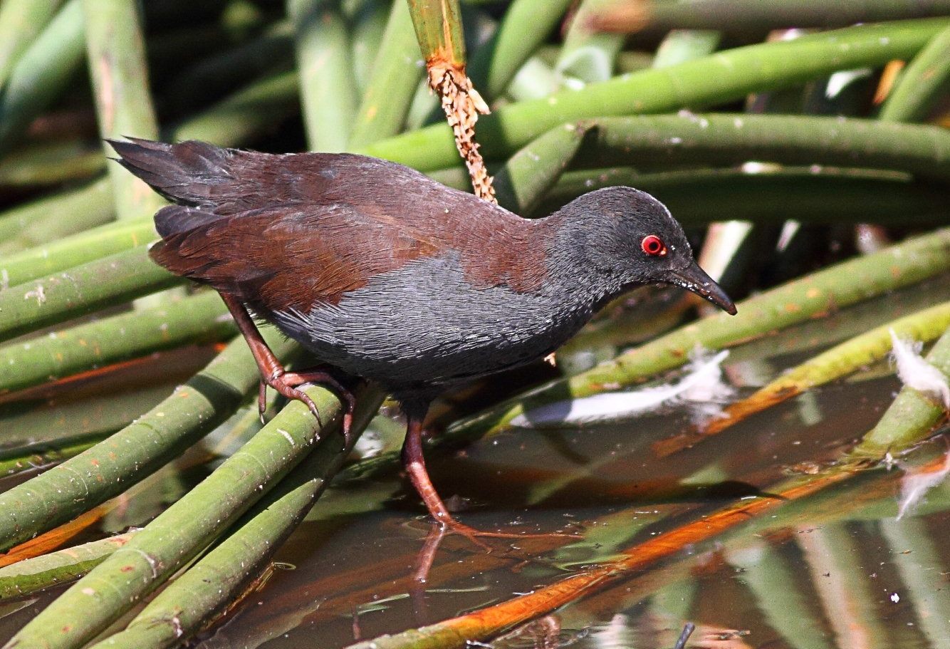 A Spotless Crake (Porzana tabuensis) at Coolart Wetlands, Mornington Peninsula, Victoria, Australia.